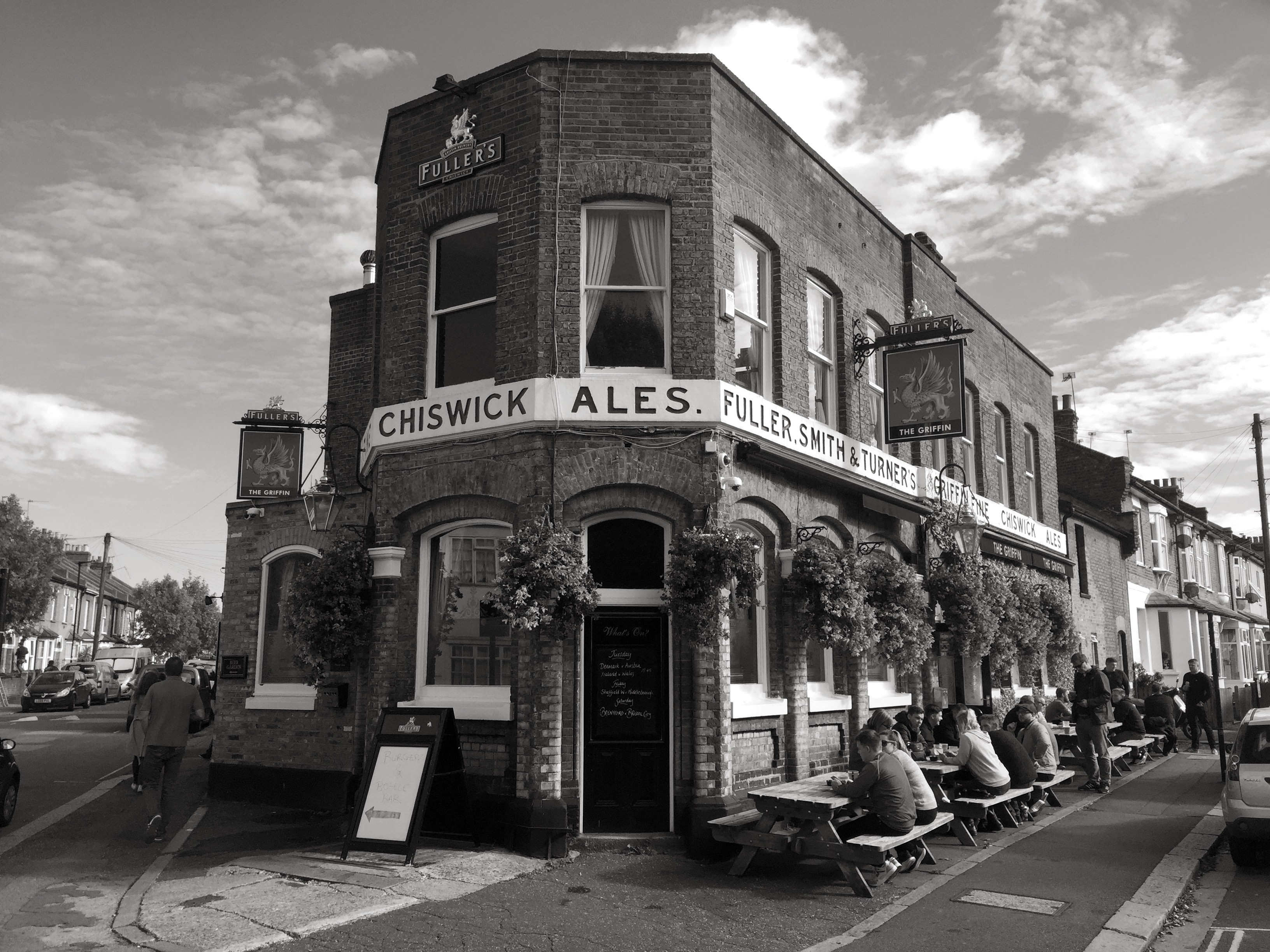 The Griffin pub, near Griffin Park, Brentford, October 2018.